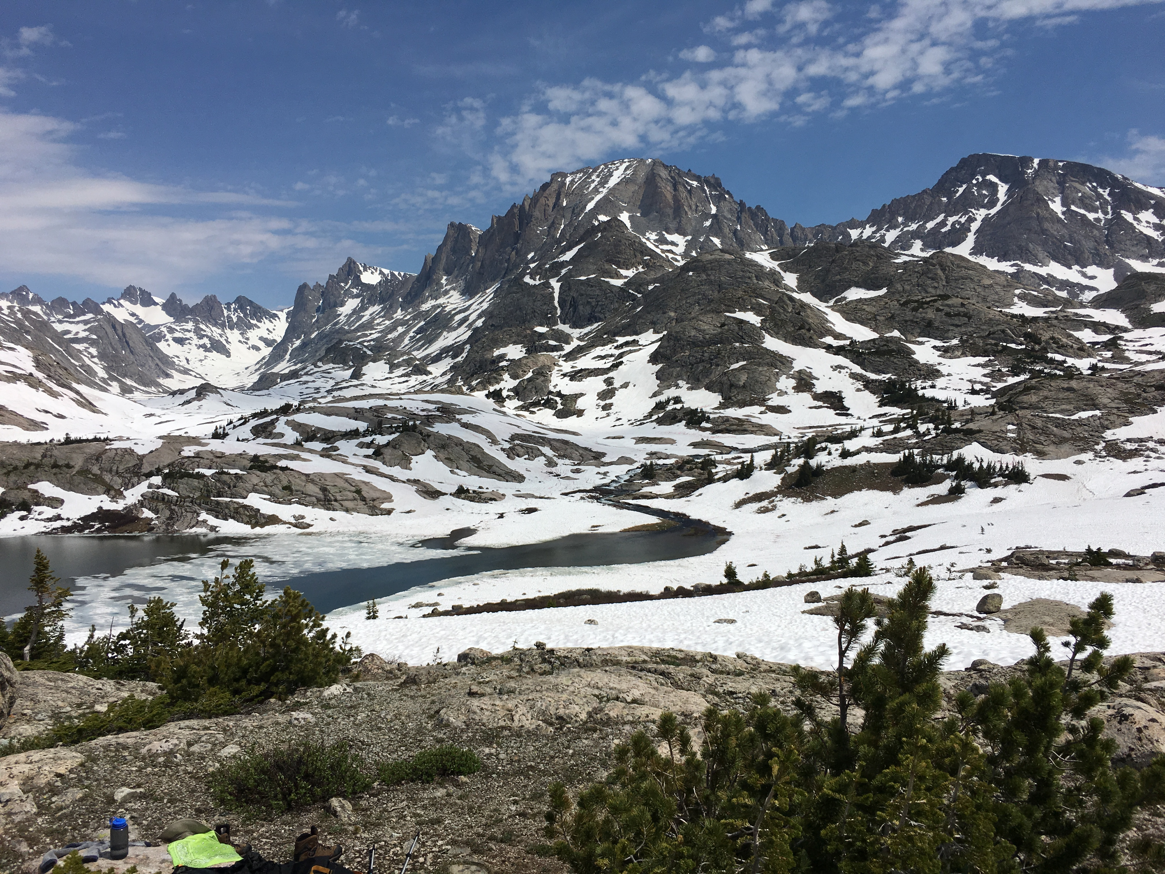 Fremont Peak in the Wind River Range, Wyoming in July 2017